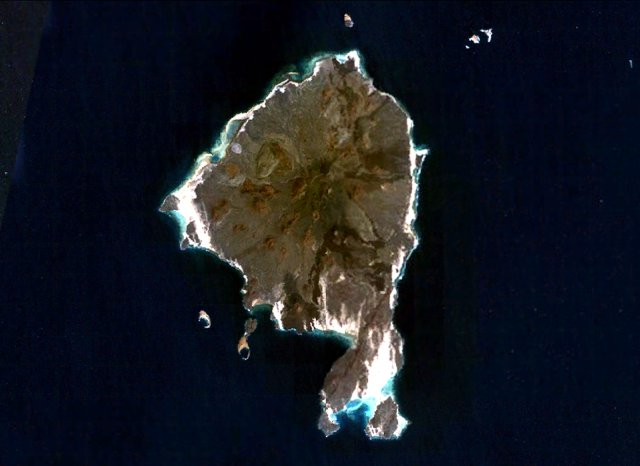 Zukur (Zugar), the northernmost large island of the Zukur-Hanish island group in the southern Red Sea, is seen in this NASA Landsat image (with north to the top). Numerous young basaltic pyroclastic cones and spatter cones were the source of pahoehoe lava flows. Products of phreatic eruptions at Zukur form small islands, such as Shark and Near Islands off the SW coast of Zukur. Vents on Zukur are aligned along a NE-SW trend, as seen on the peninsula at the southern tip of the island.